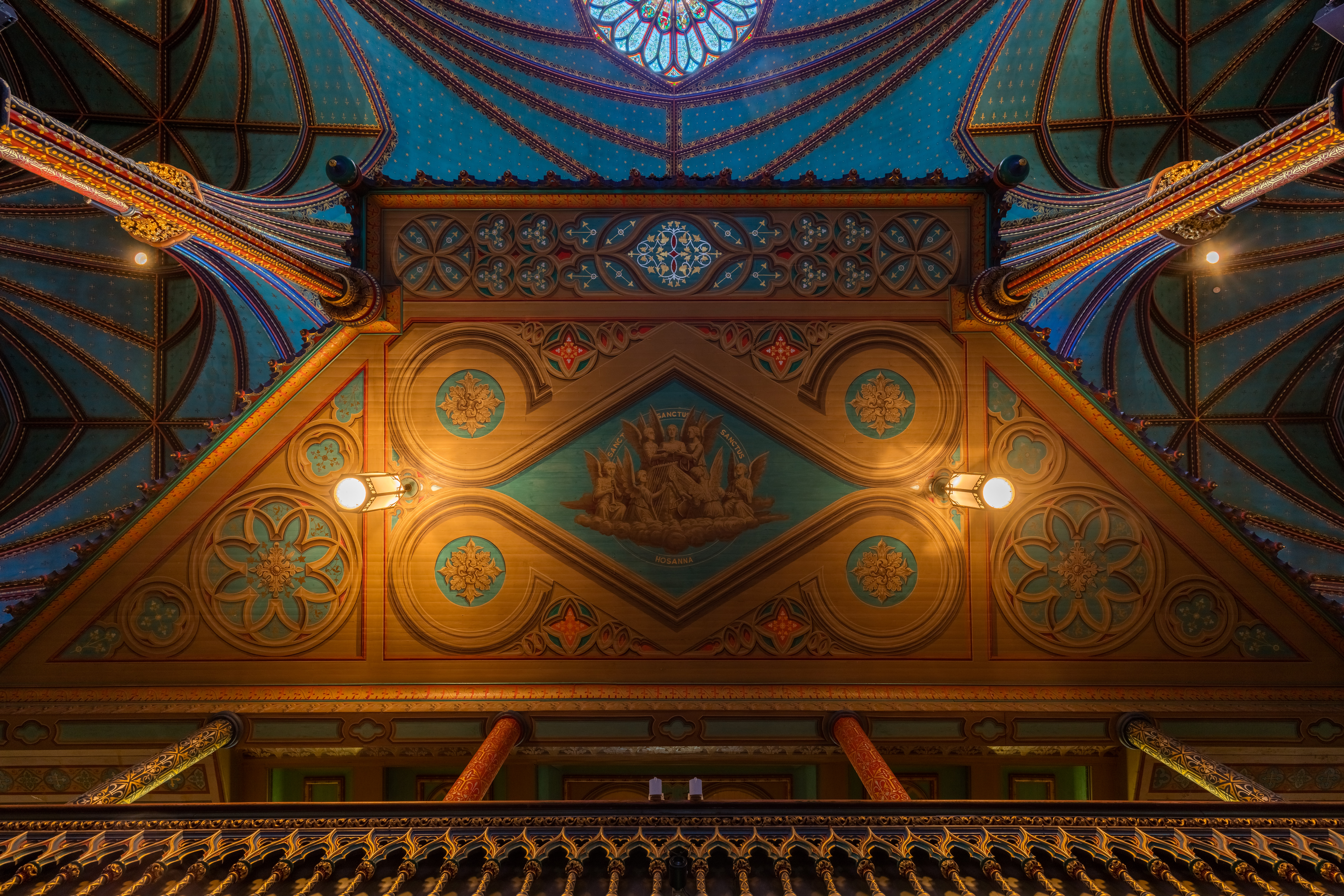 Notre-Dame de Montréal Basilica